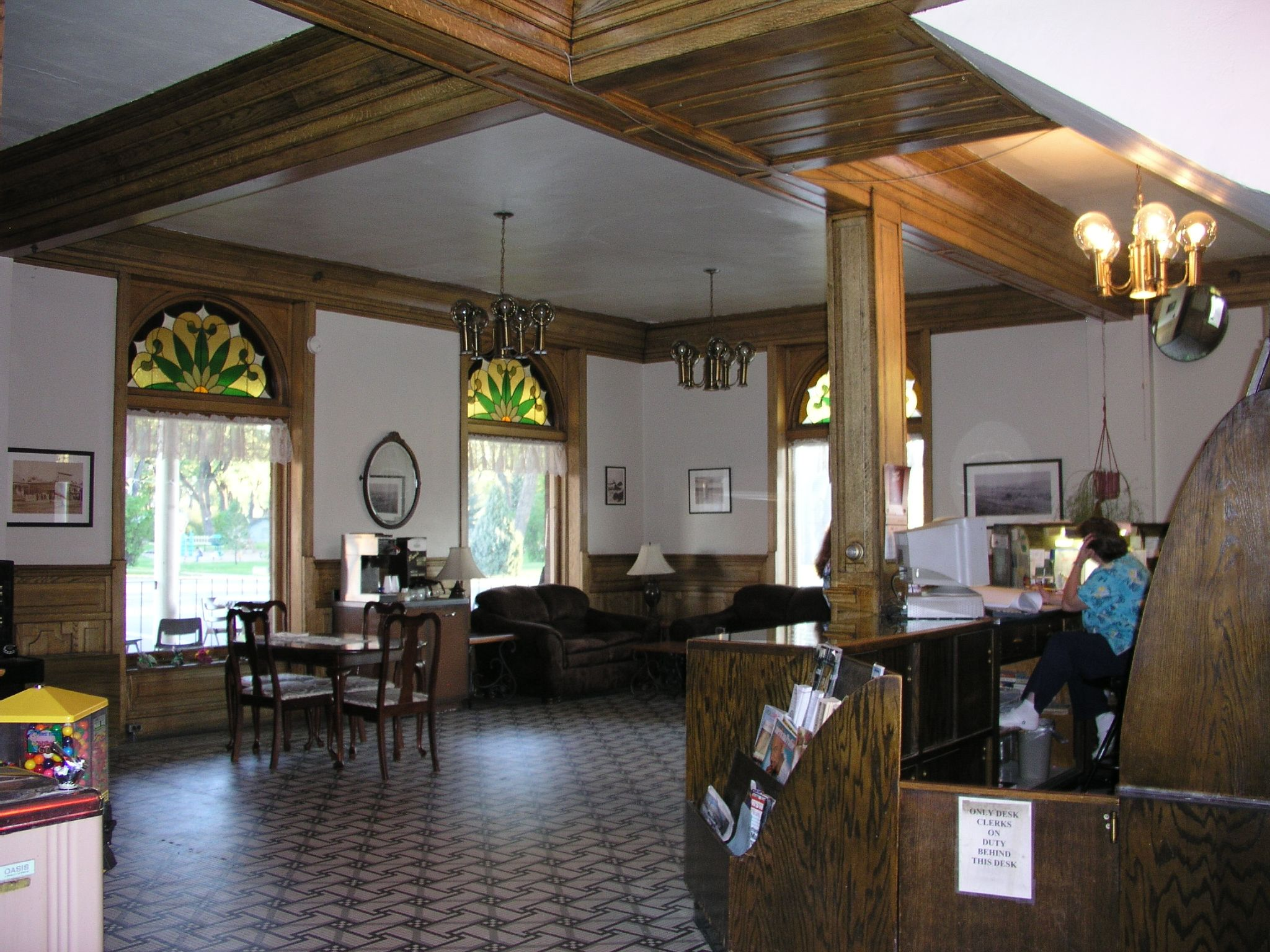 The lobby of the historic Olive Hotel, Miles City, Montana. The far corner is the southwest corner of the hotel -- Main Street is out the windows on the left and N. Fifth Street on the right.